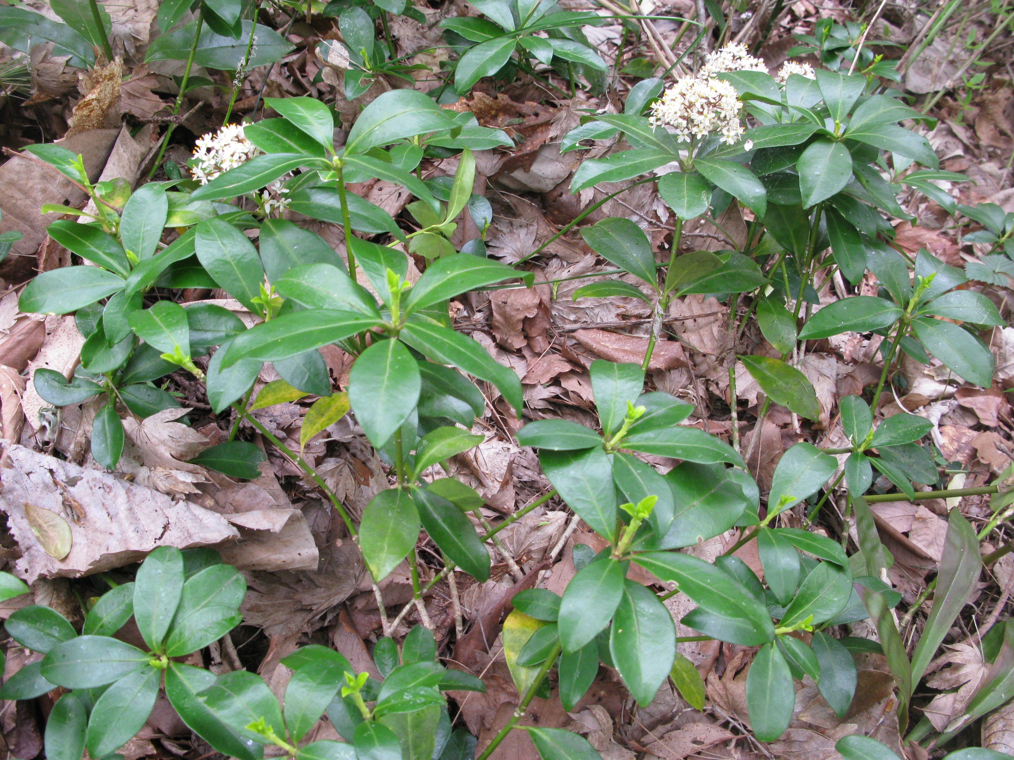 Skimmia japonica var. intermedia f. repens, Aizu area, Fukushima pref., Japan